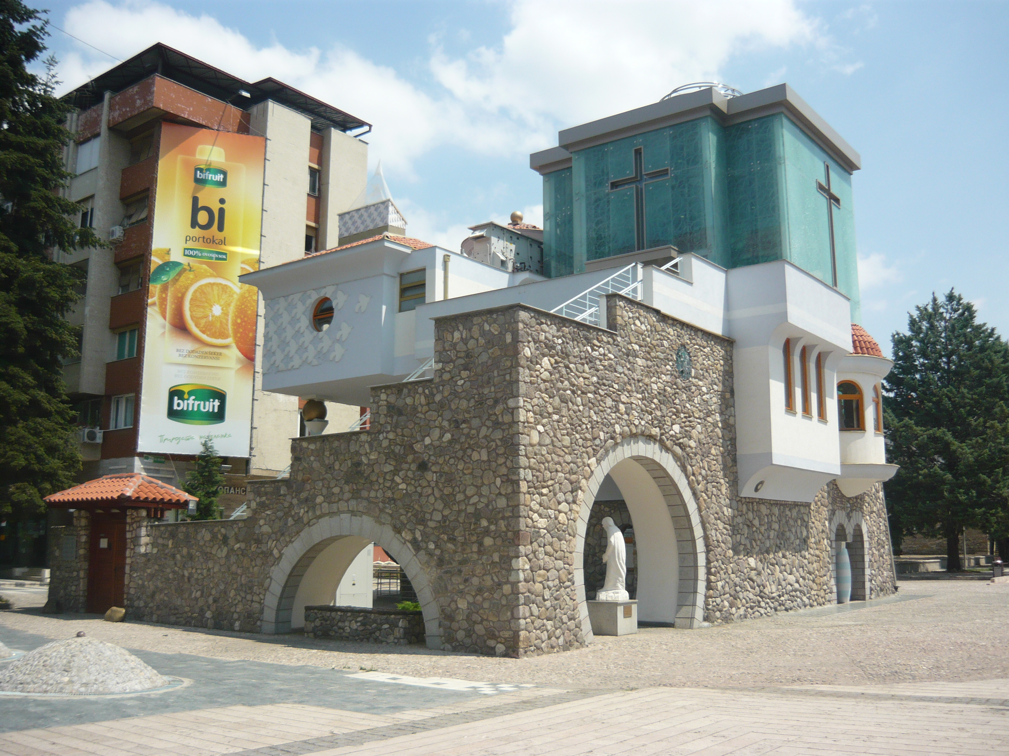 Memorial House of Mother Teresa in Macedonia